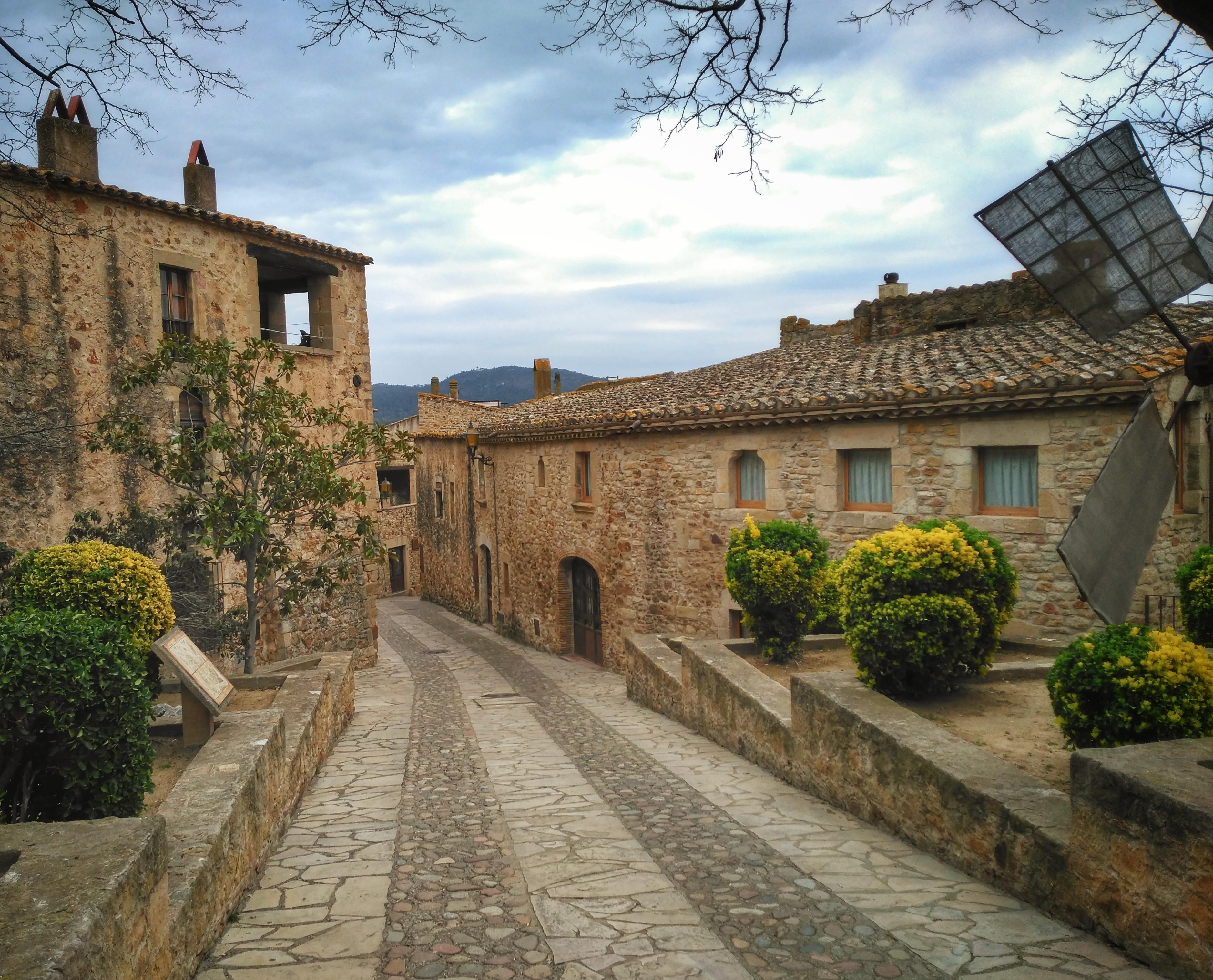 Pals, a small picturesque village located in the province of Girona, Catalunya.